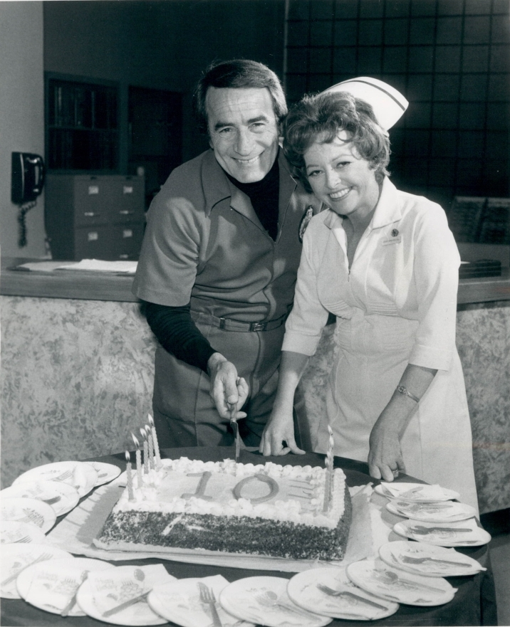 Publicity photo for the 10th Anniversary of General Hospital. The pictured cast are John Beradino (as Dr. Steve Hardy) and Emily McLaughlin (as Jessie Brewer).